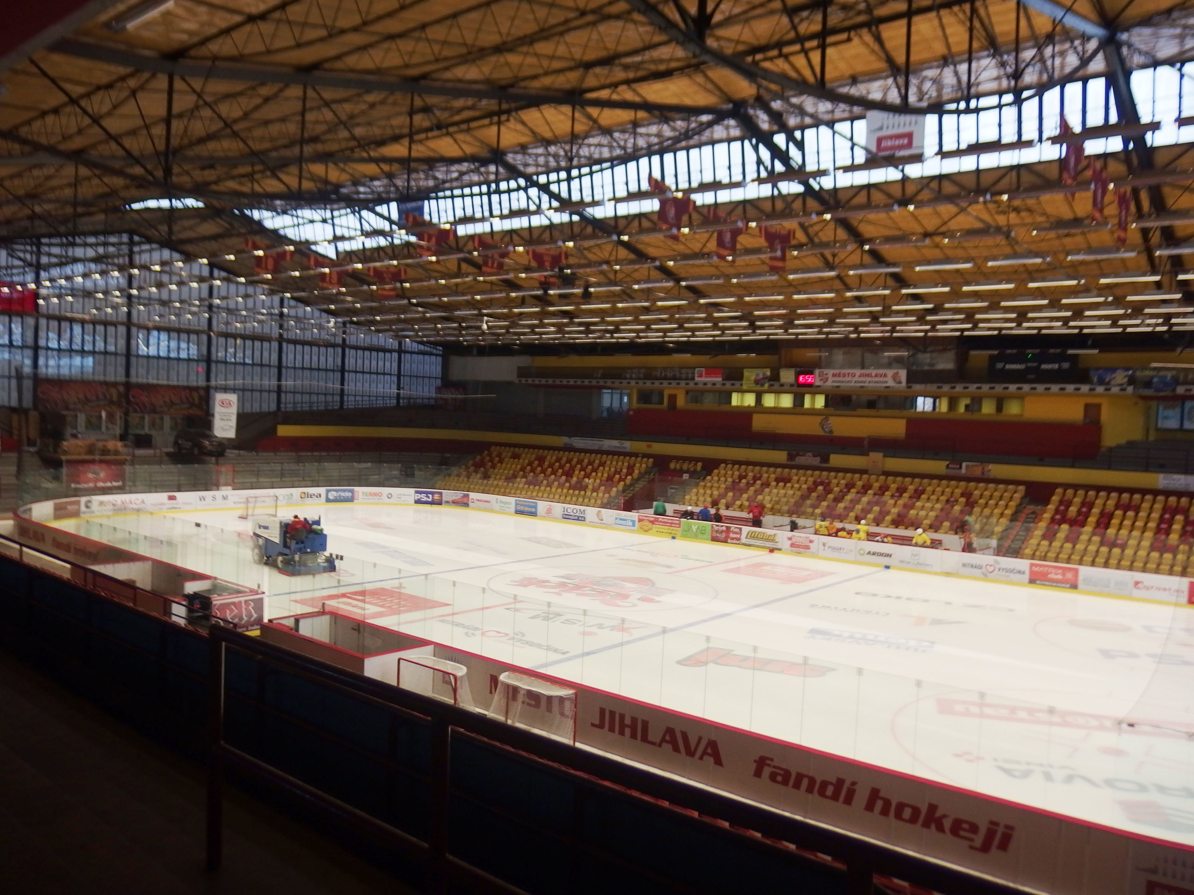 Jihlava, Česká republika. Horácký zimní stadion, ice hockey stadium of HC Dukla Jihlava.